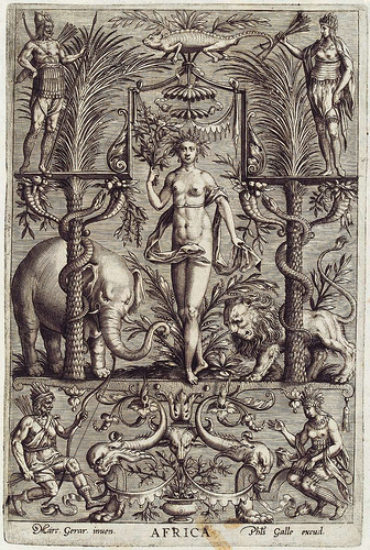 Philippe Galle, the father-in-law of Adriaen Collaert. Designed by Marcus Gheeraerts (or Geeraerts). The style suggests that it was Gheeraerts the Elder.